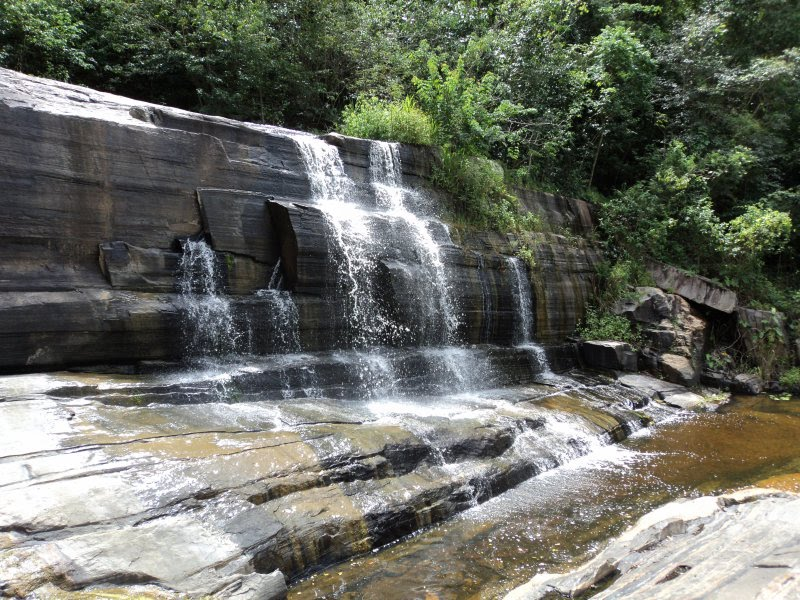 Cahoeira do pinga Lagoa Seca - PB